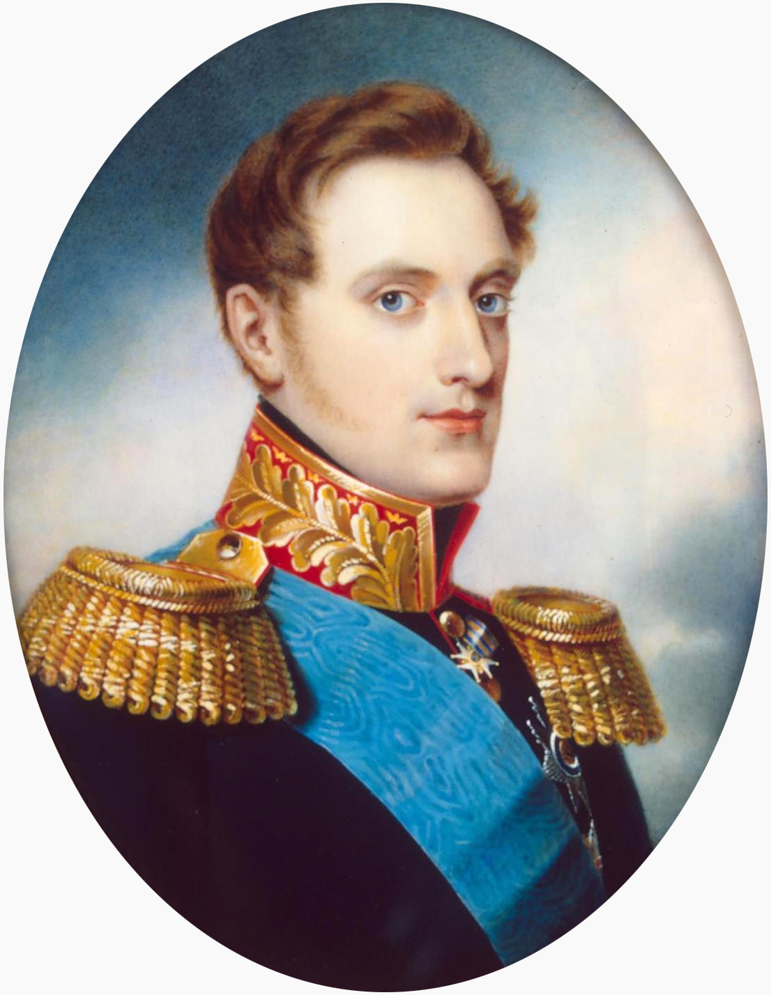 Grand Duke Nikolai Pavlovich (1796-1855), future emperor Nicholas I (ca. 1820)